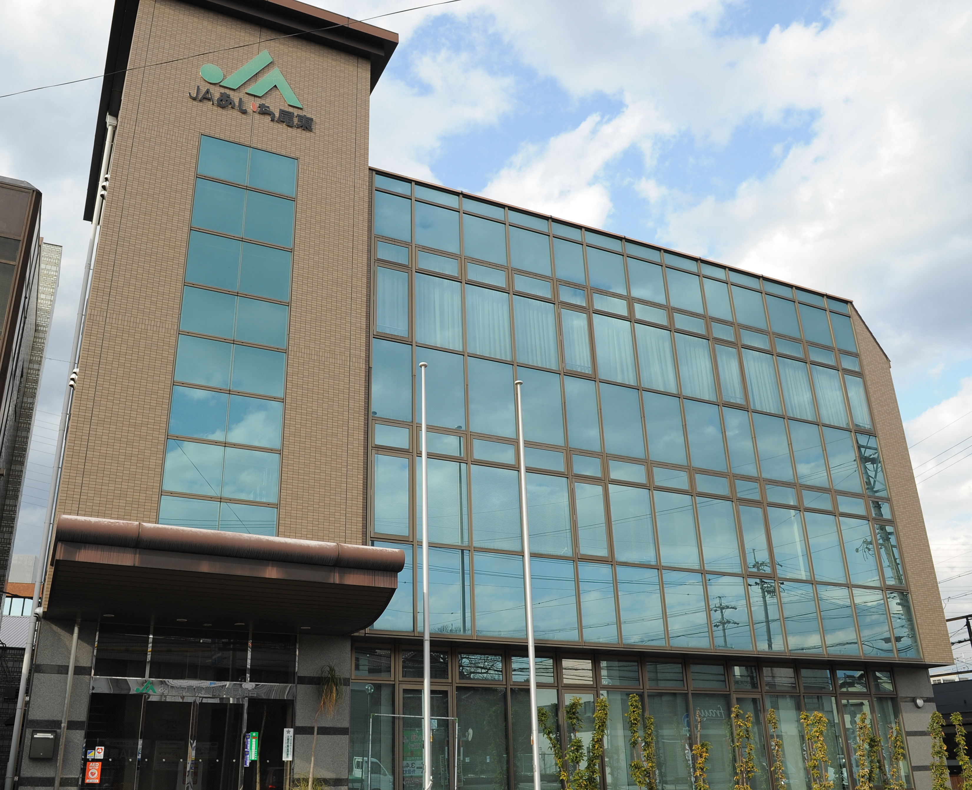 JA Aichi Bito Headquarters, Nisshin, Aichi